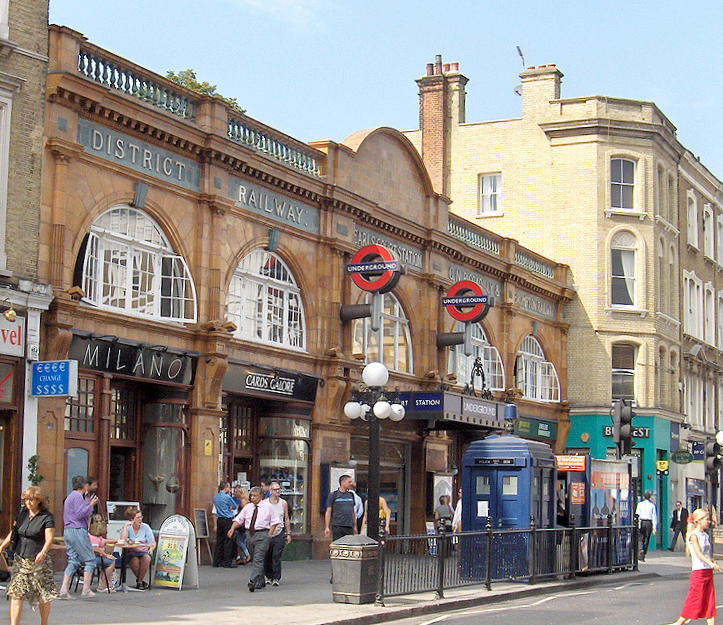 Earl's Court underground station, Earls Court Road entrance (September 2006)